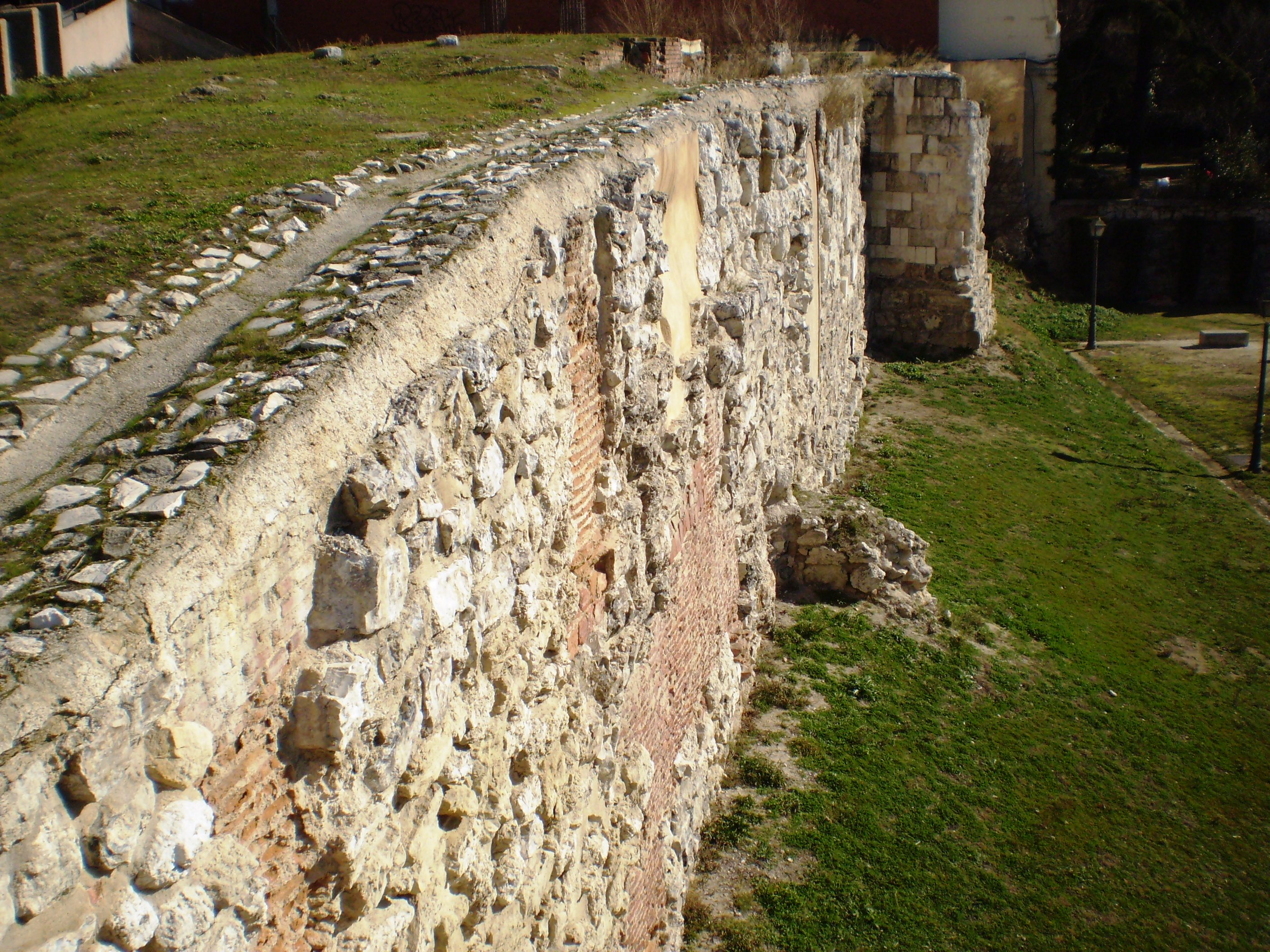 Ruins of Muslim wall of Madrid (Spain).